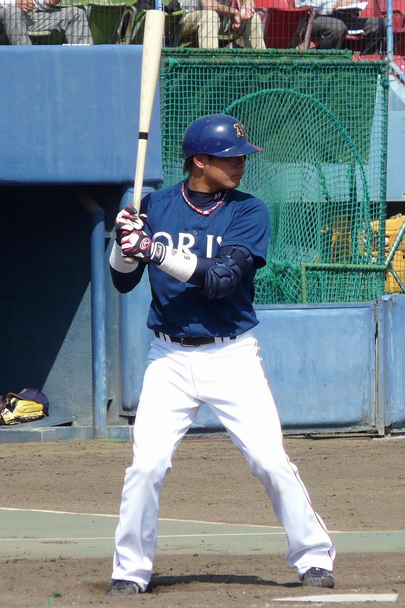 Kenta Doi